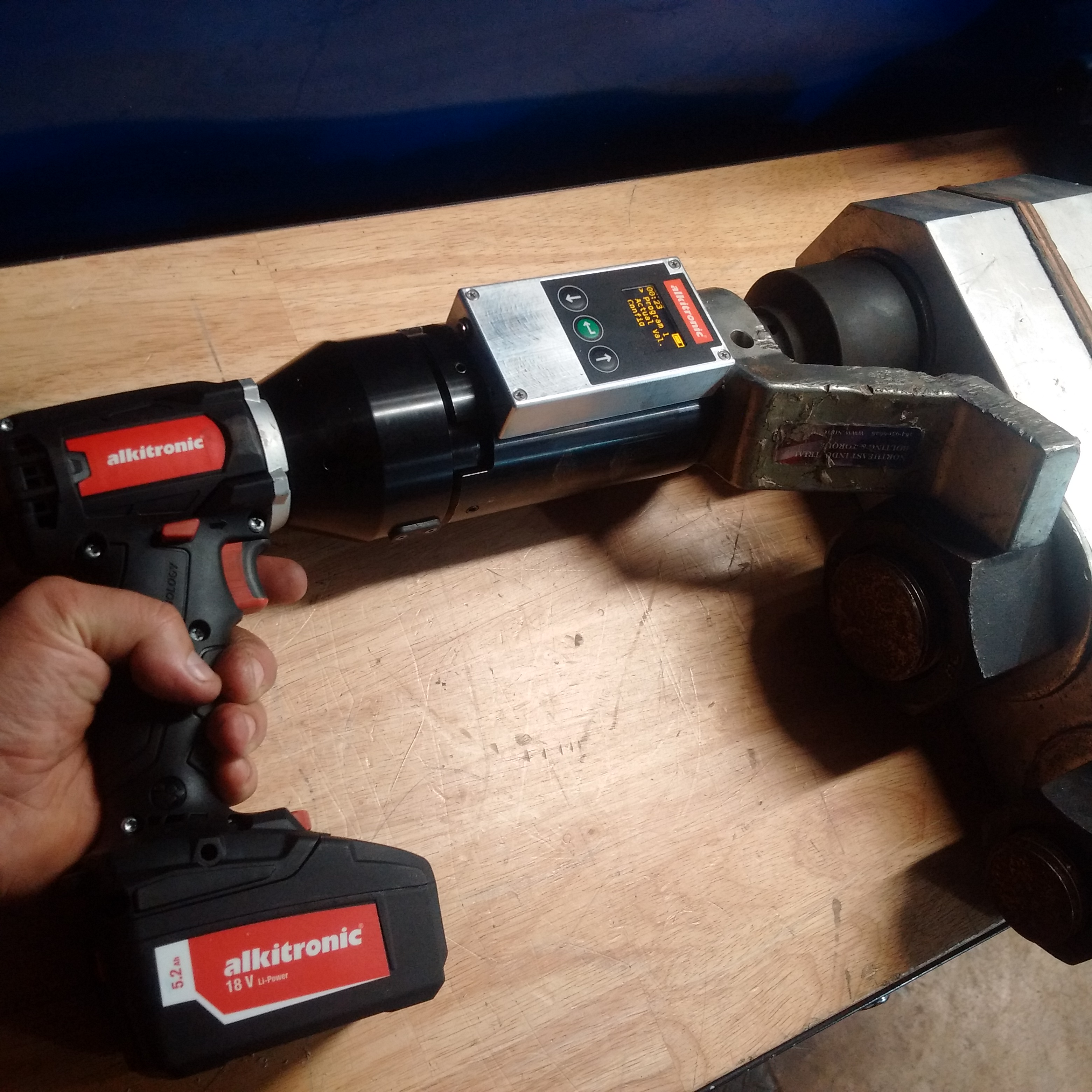 MDS TRANDUCERIZED TOOL ON NIBTORQUE FLANGE